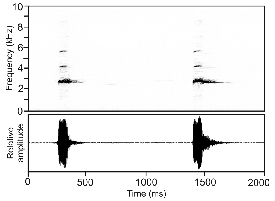 Spectrogram and waveforms of a part of a call series of the holotype of Anodonthyla vallani, recorded at Ambohitantely Special Reserve on 17 January 2005.